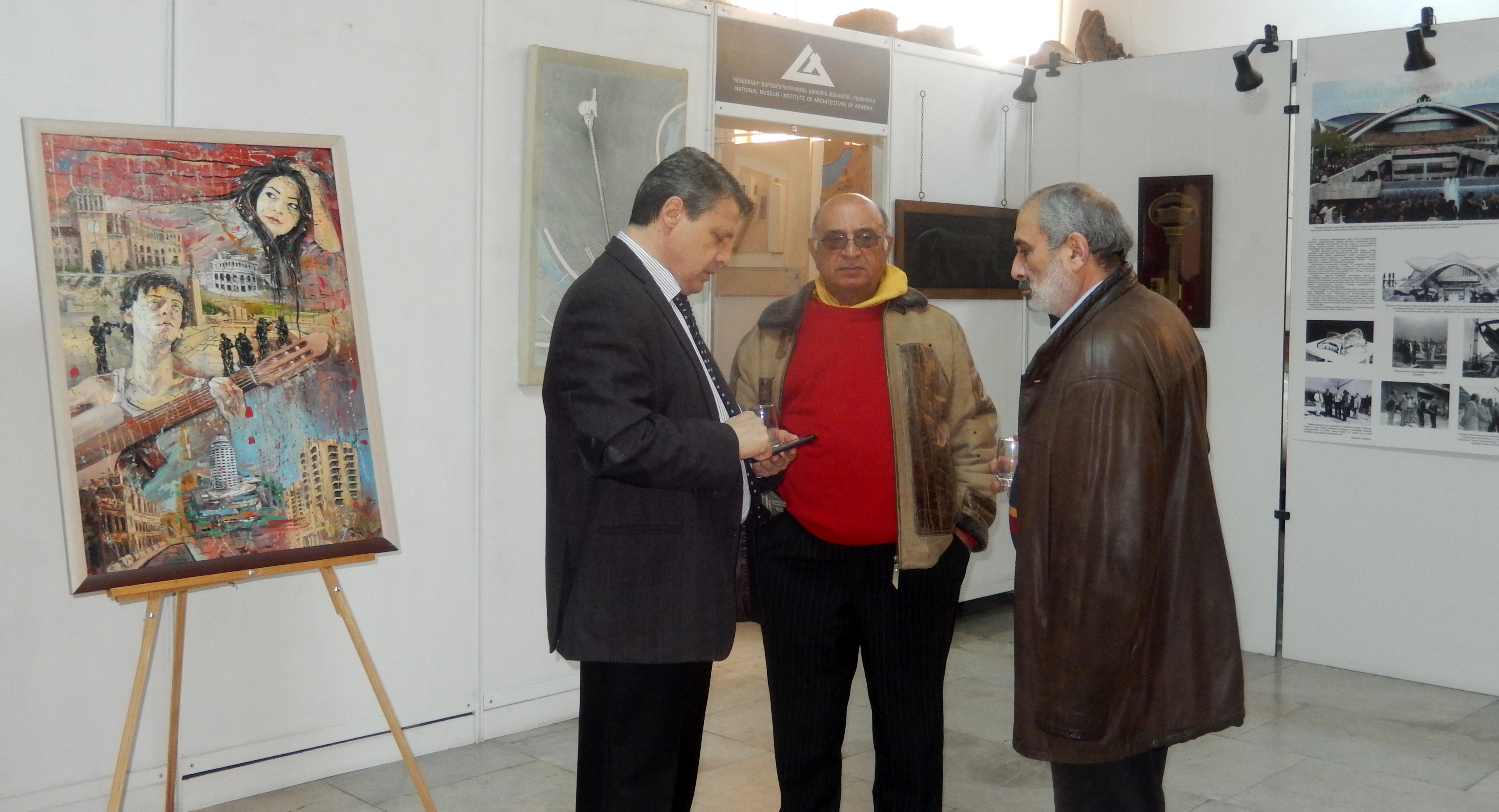 Ճարտարապետ Տիգրան Բարսեղյանը, քանդակագործ Տիգրան Արզումանյանը և նկարիչ Հաղթանակ Շահումյանը